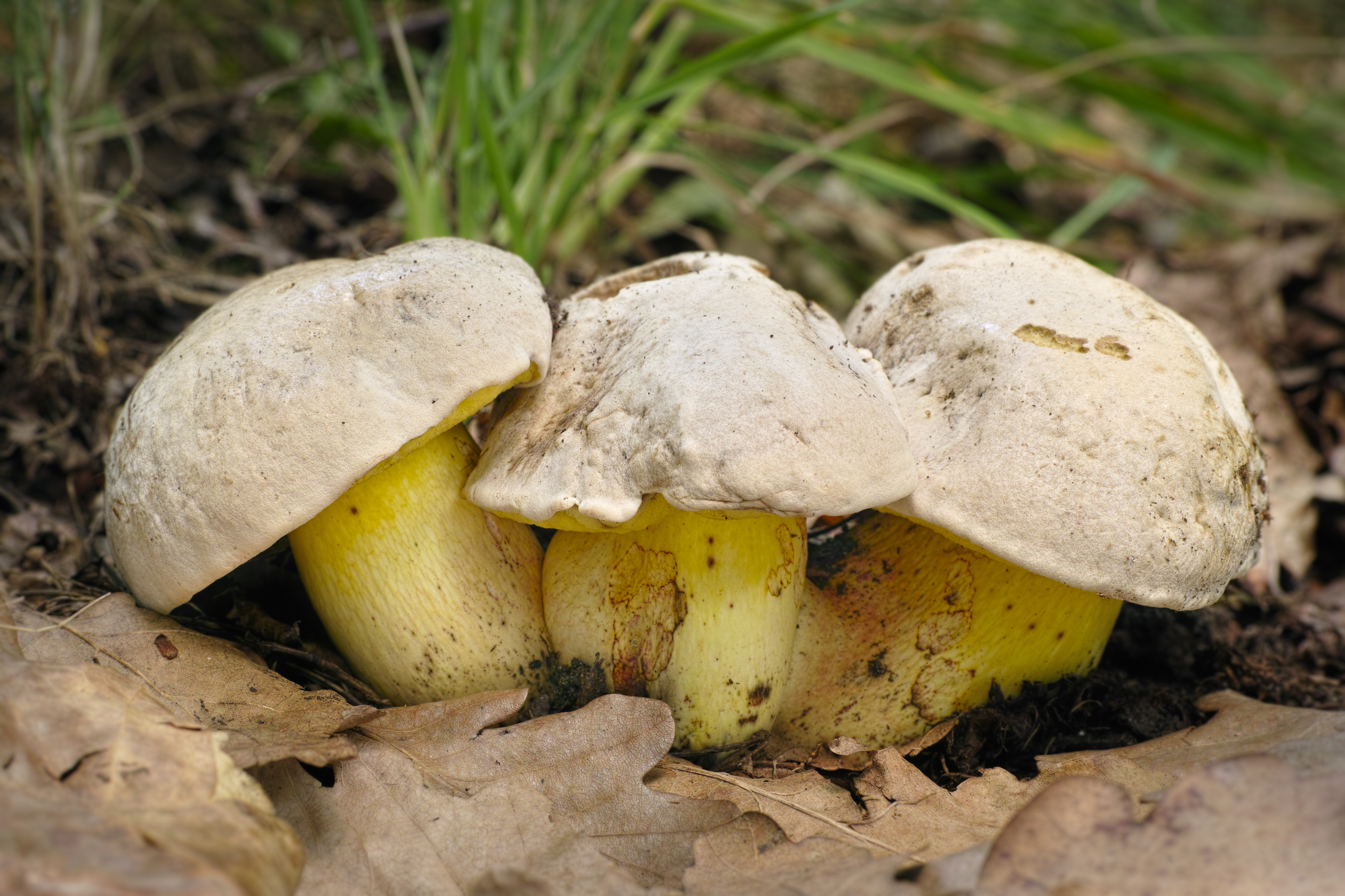 Boletus radicans, Vrbenské rybníky, Czech Republic